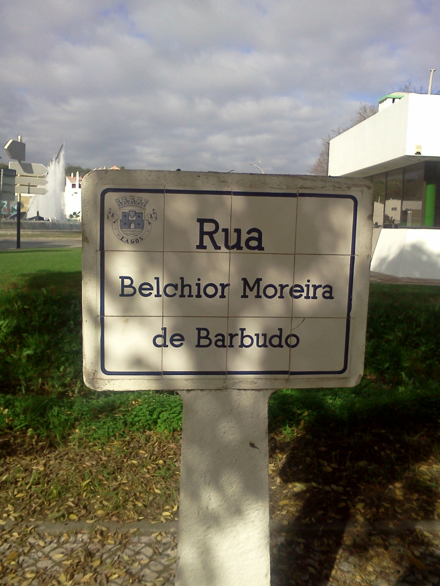 Street sign of Rua Belchior Moreira de Barbudo, in the city of Lagos, in southern Portugal.